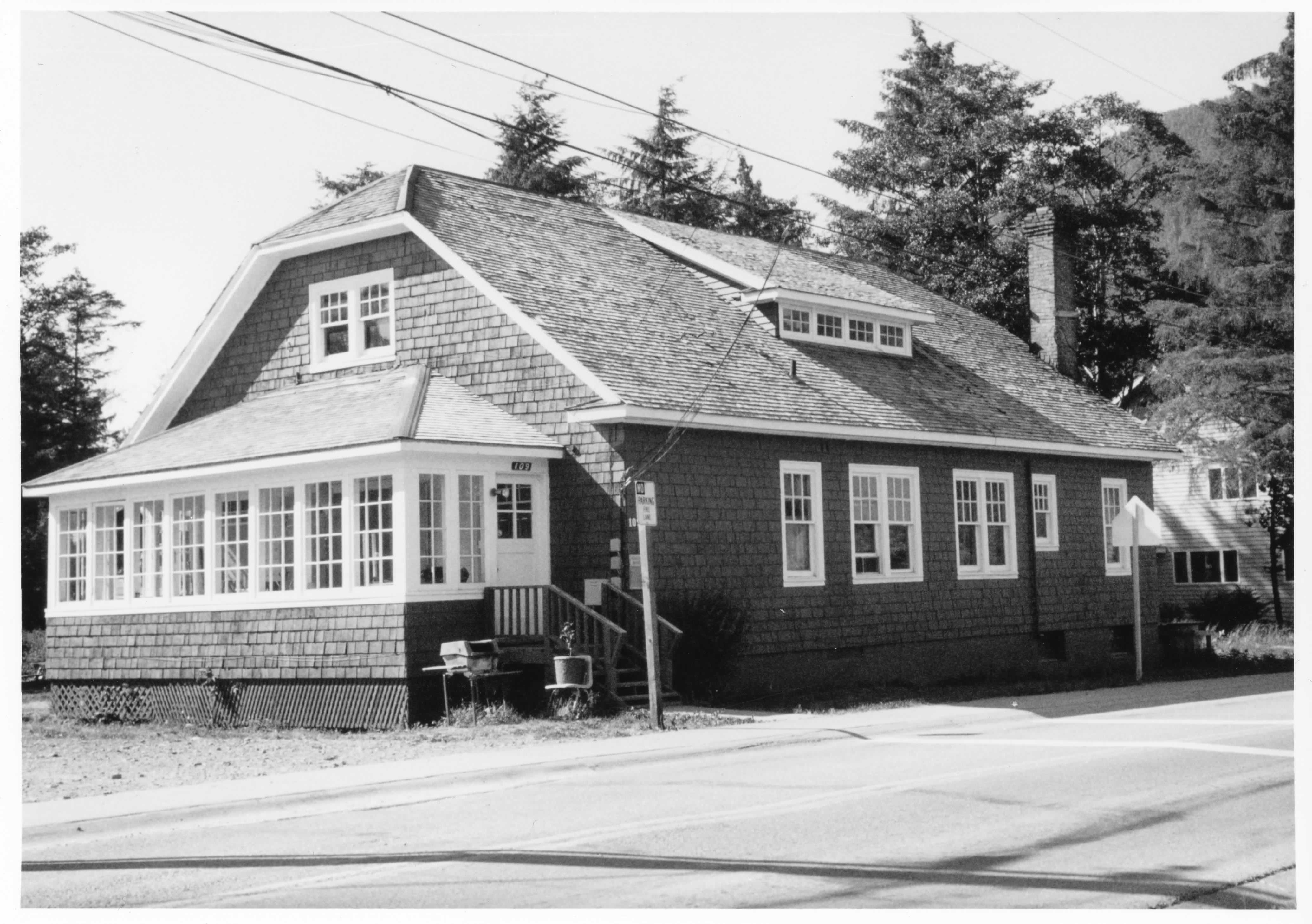 Tillie Paul Manor, Sheldon Jackson School, Sitka, Alaska. From the National Archives. National Historic Landmark Nomination. 72000193 NHL